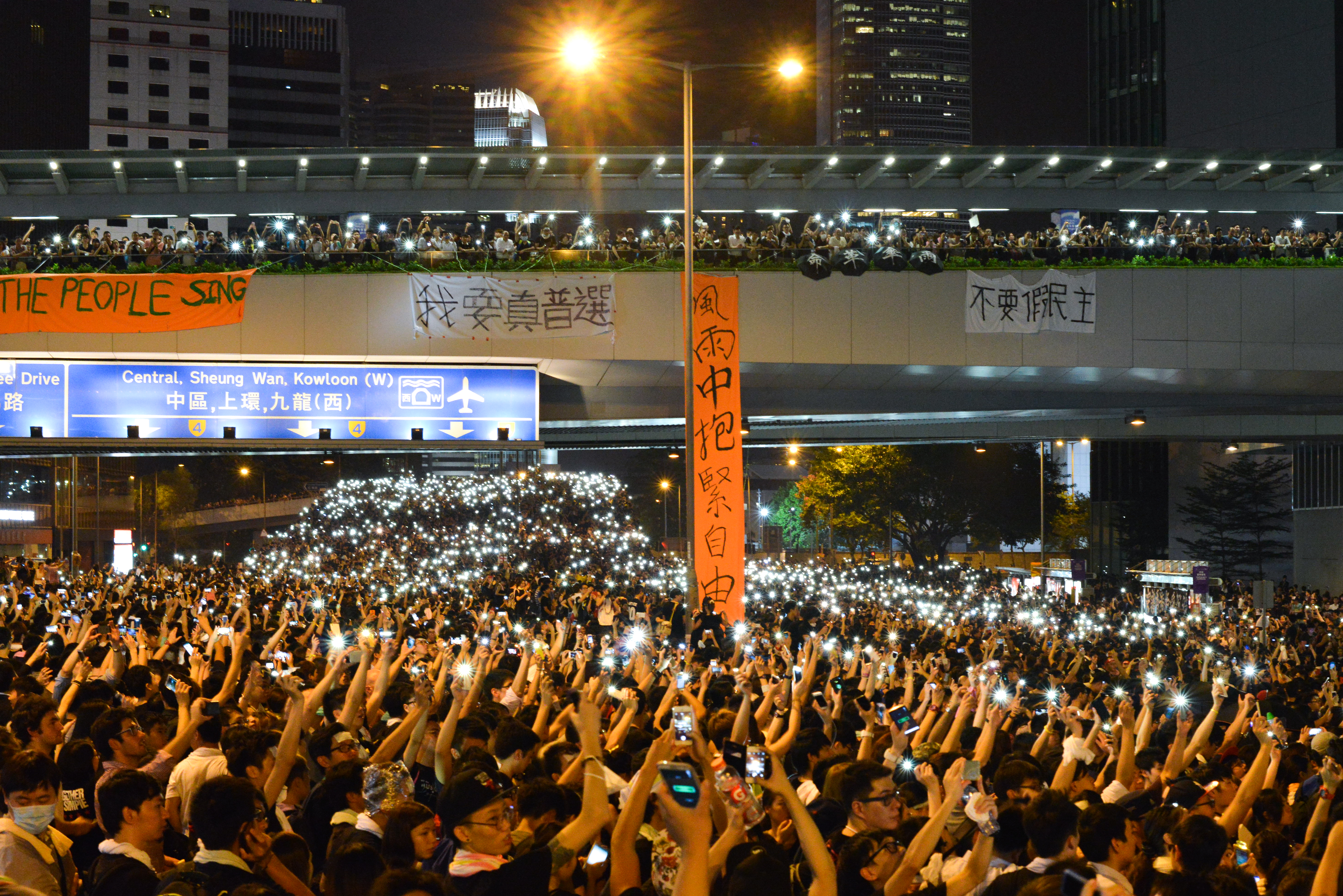 Cellphones in Hong Kong during 2014 Hong Kong protests